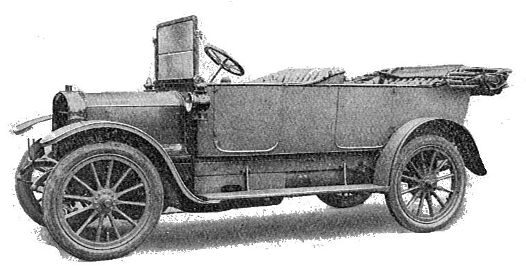 Pearson-Cox steam car (Autocar Handbook, Ninth edition).jpg